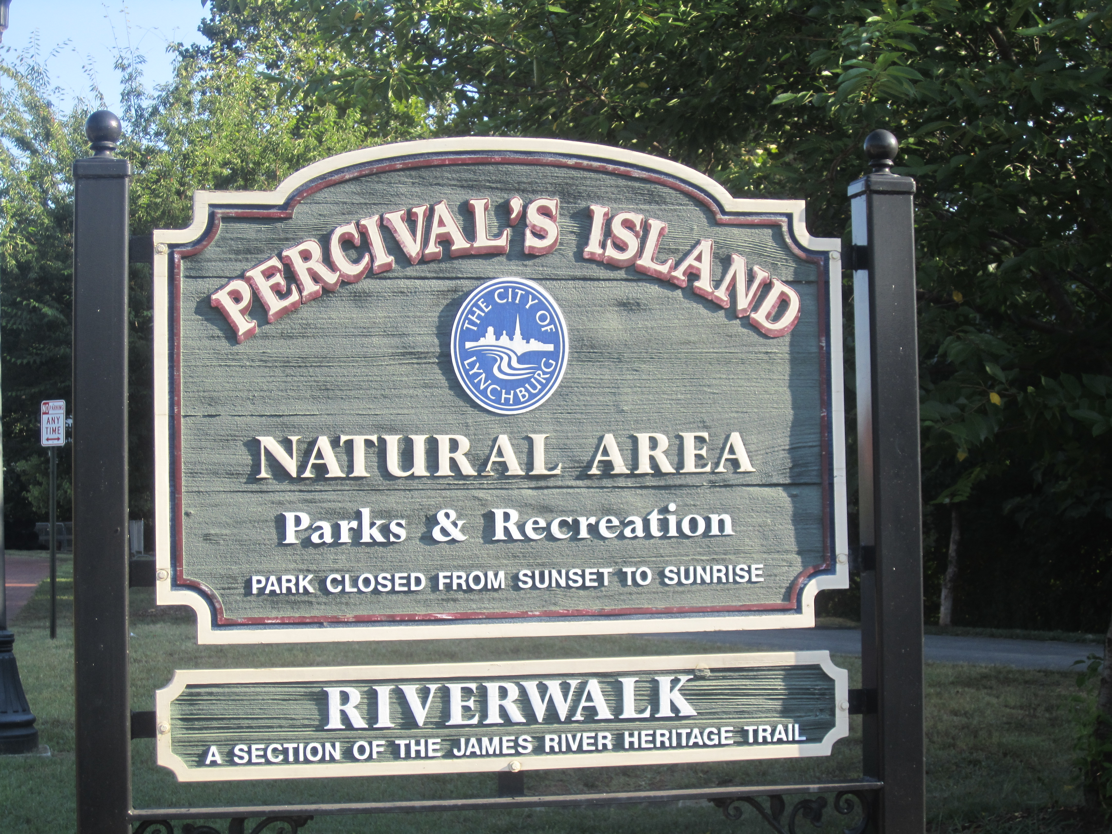 I took photo with Canon camera of Percival's Island Riverwalk in Lynchburg, VA.